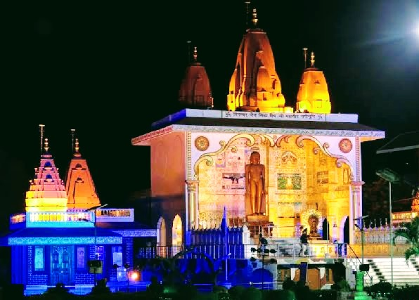 The famous Mahaveer Tapo Bhumi at Ujjain with 21 feet statue of Mahavir swami.